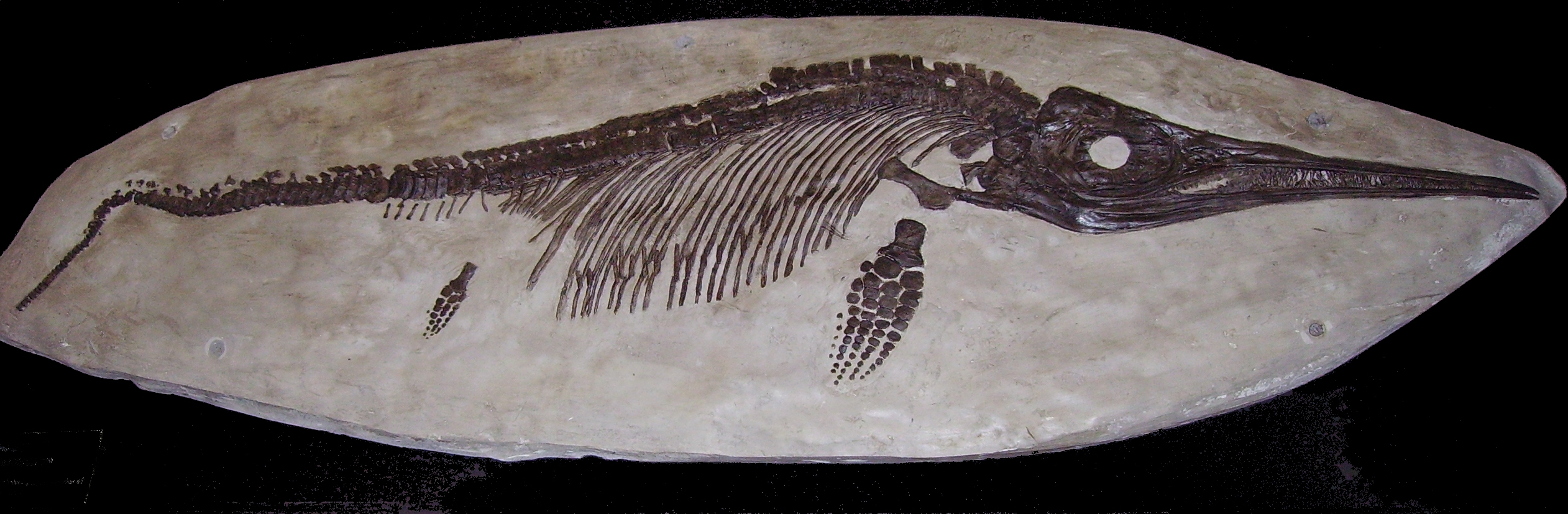 Photographer: User:Ballista from Dinosaurland, Lyme Regis, England